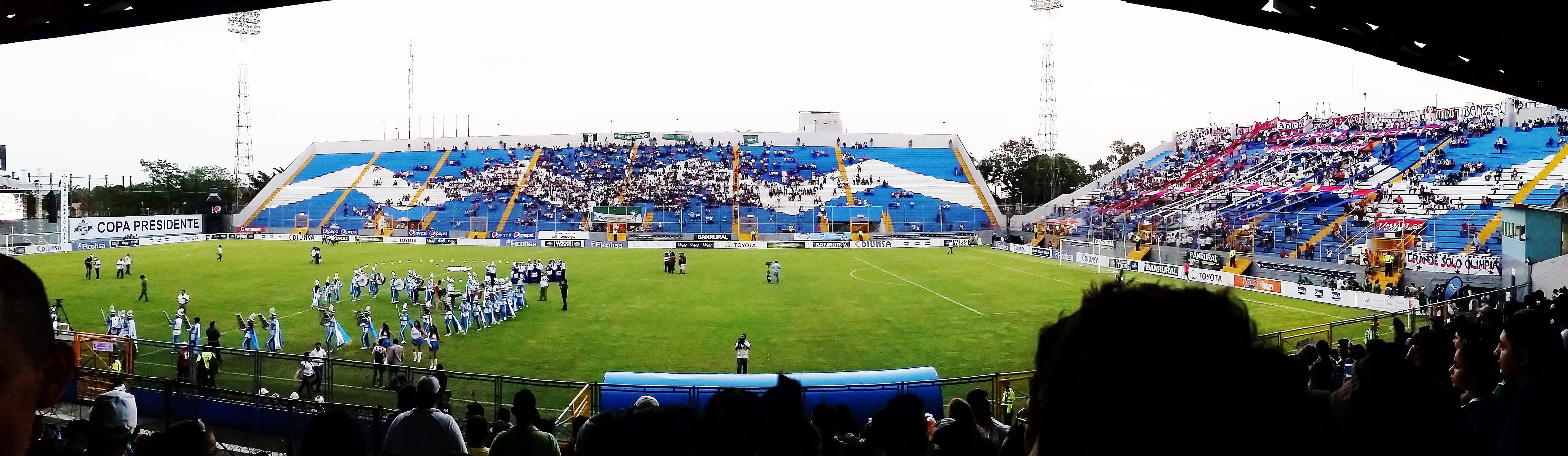 Stadium Morazan of San Pedro Sula during President's cup